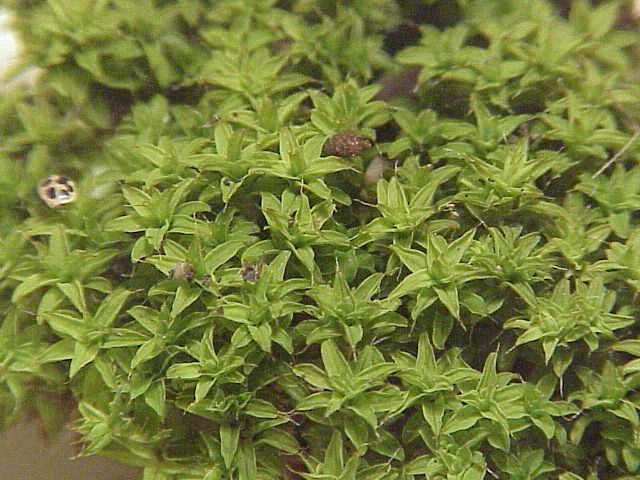 Species: Tortula ruralis Family: ' Image No. 1